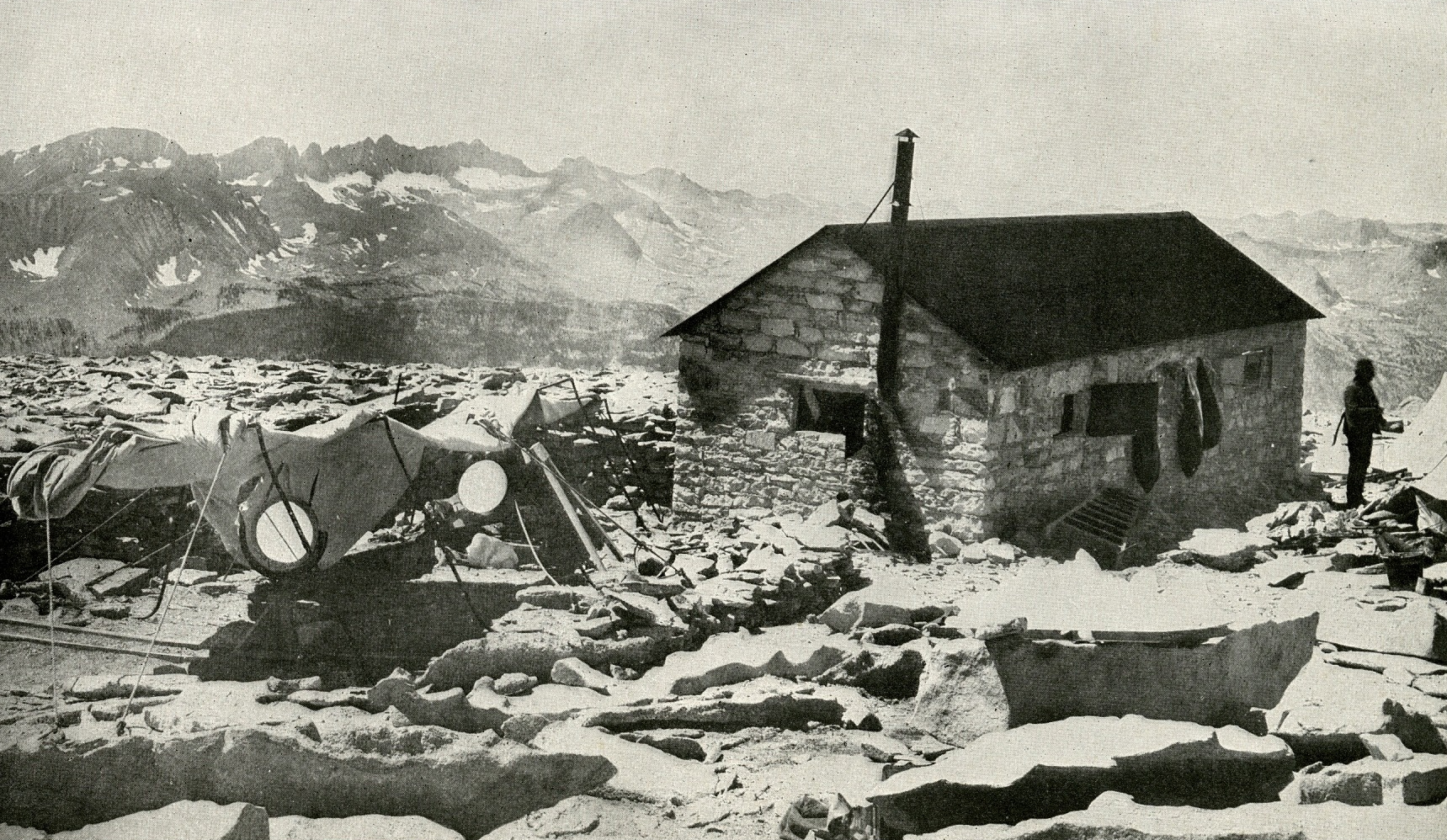 Atop Mount Whitney, California, 14,502 feet above sea level, the new Smithsonian Institution Astrophysical Observatory (SAO) stone and steel shelter completed for the use of scientific observers who desired to avail themselves of the unusually favorable atmospheric conditions on that summit. Observation equipment can be seen on the rocky terrain, and a man stands to the right of the shelter. Located within the Sierra Nevada Mountain Range of Sequoia National Park, Mt. Whitney is situated on the east side of the Great Western Divide